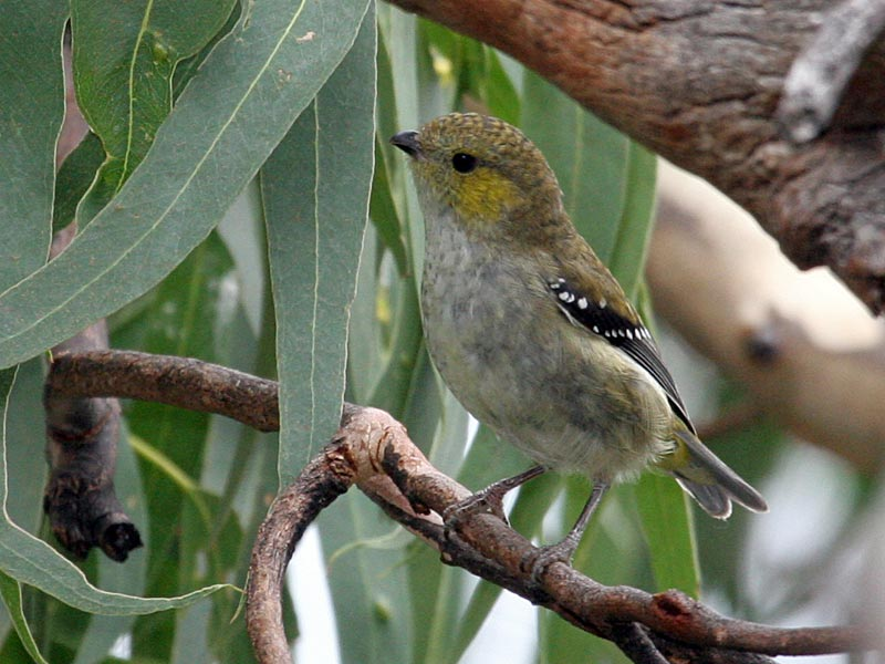 Photo of the Forty-spotted Pardalote (Pardalotus quadragintus), a rare Australian endemic bird. Taken March 31, 2006 on Maria Island, off the coast of Tasmania.